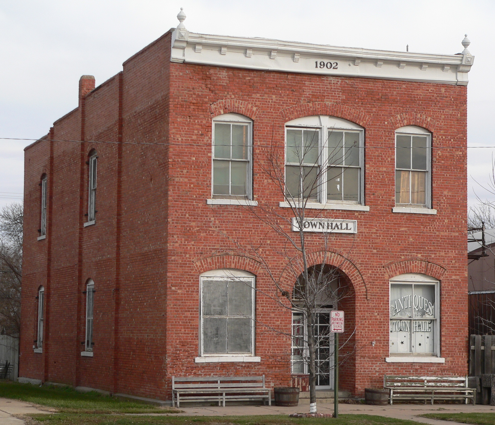 Town Hall in Bradshaw, Nebraska; seen from the west. The building was constructed in 1902 and is listed in the National Register of Historic Places. It is currently used as an antique shop.